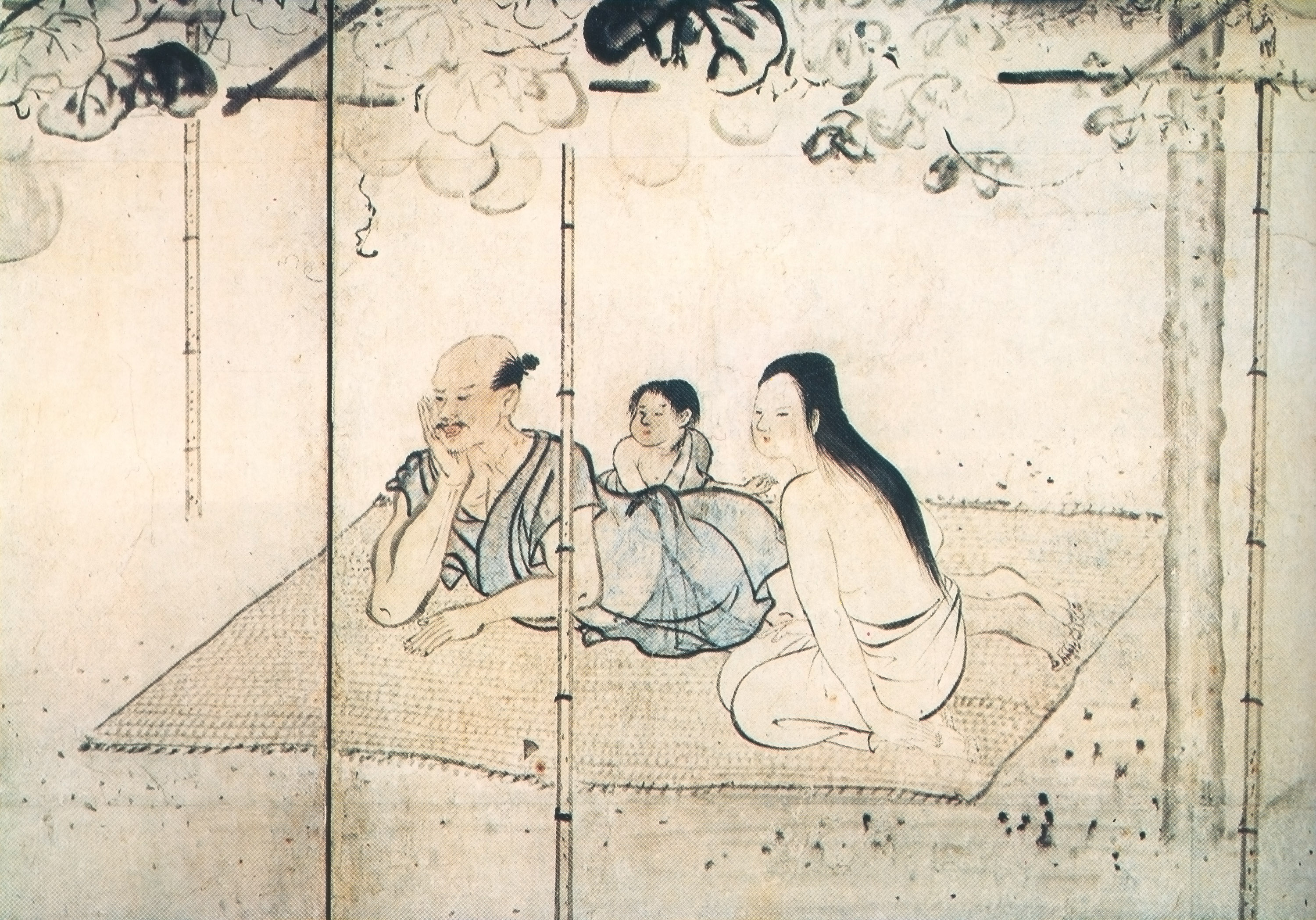 Painting. Title: Detail of Staying cool under the arbour of 'evening glory'.